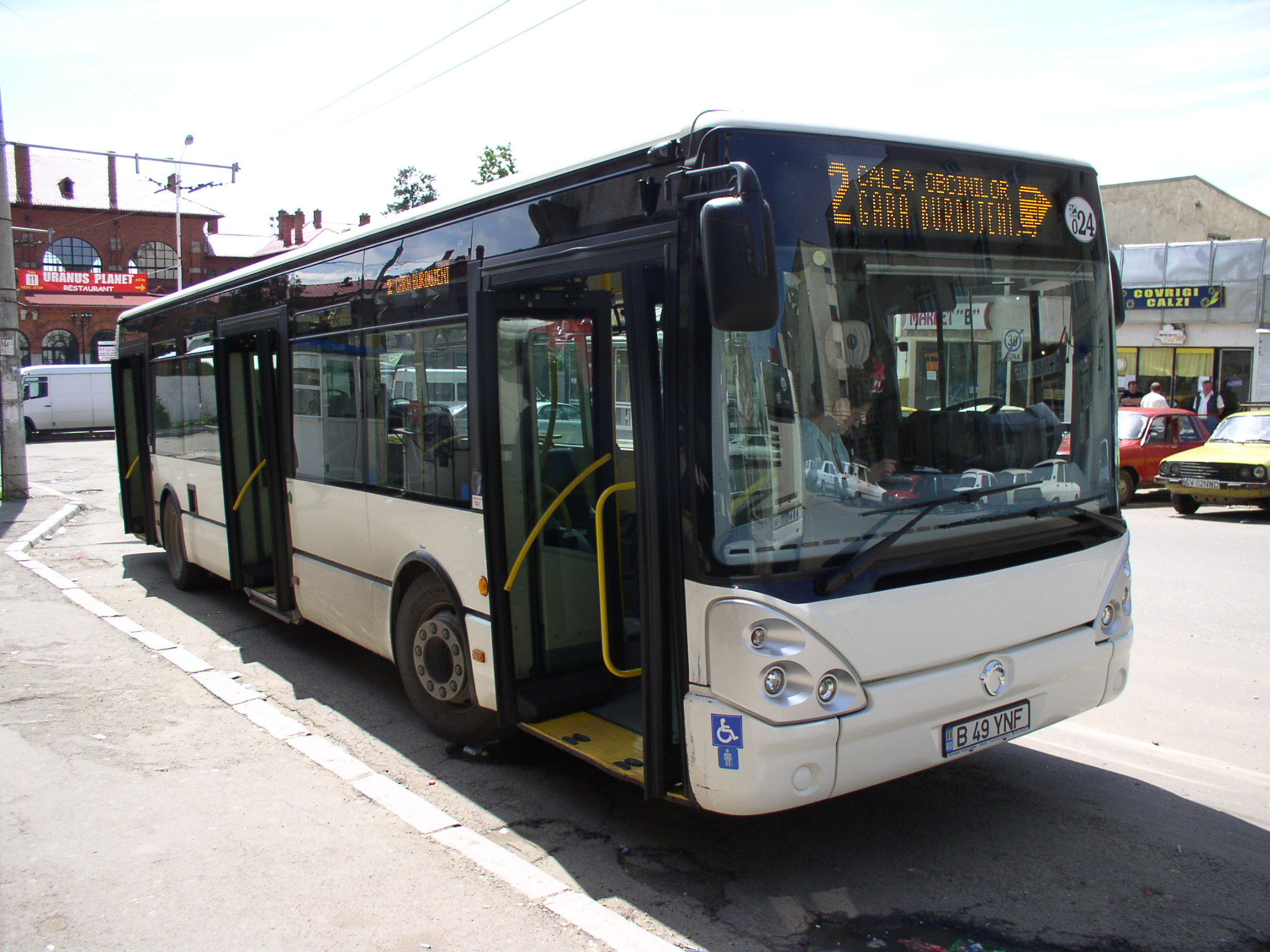 City bus in Suceava (Irisbus type).